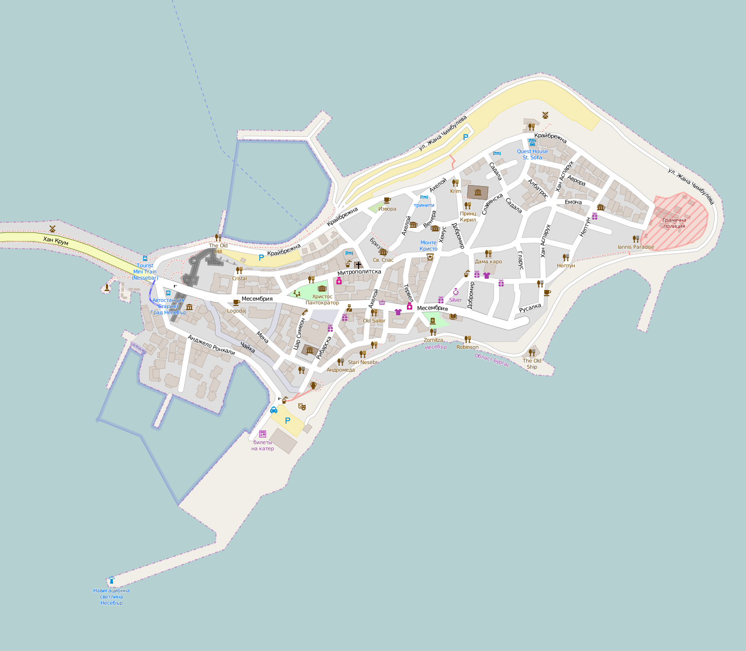 OpenStreetMap - Map of Nesebar Old Town